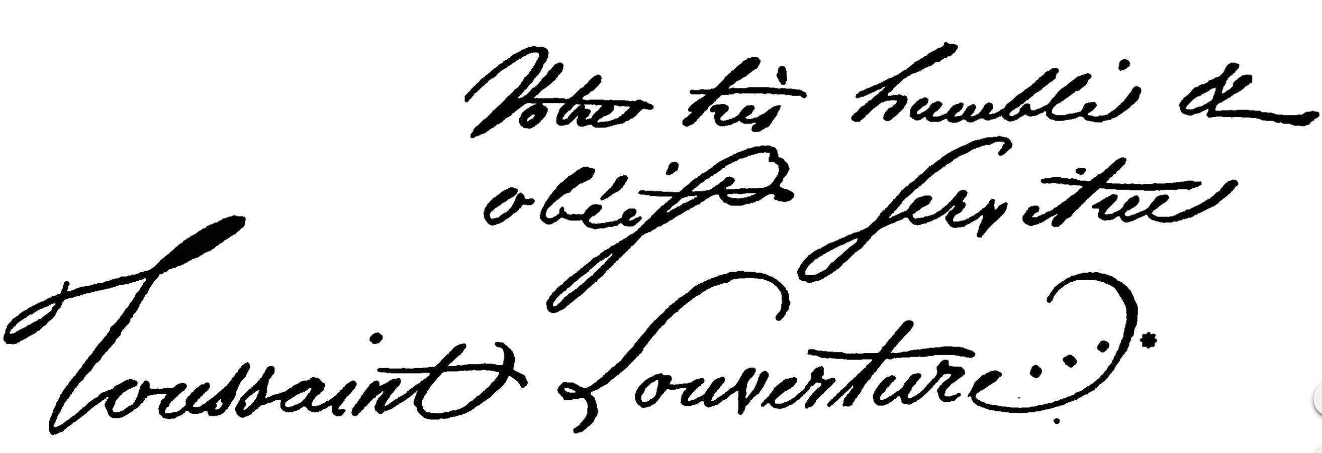 Toussaint Louverture's signature